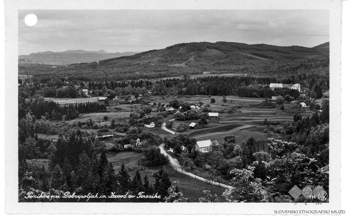 Postcard of Ponikve